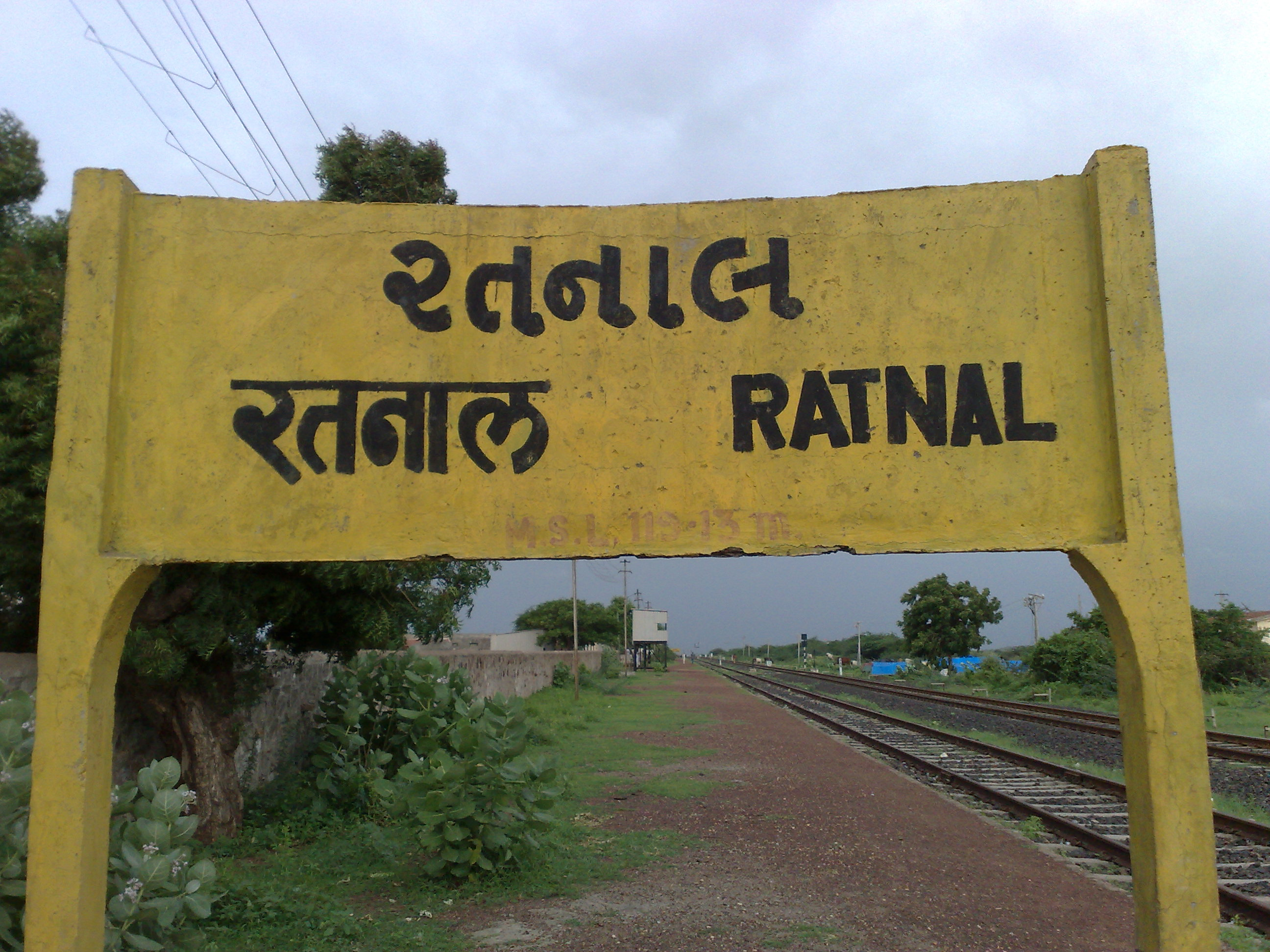 Ratnal railway station